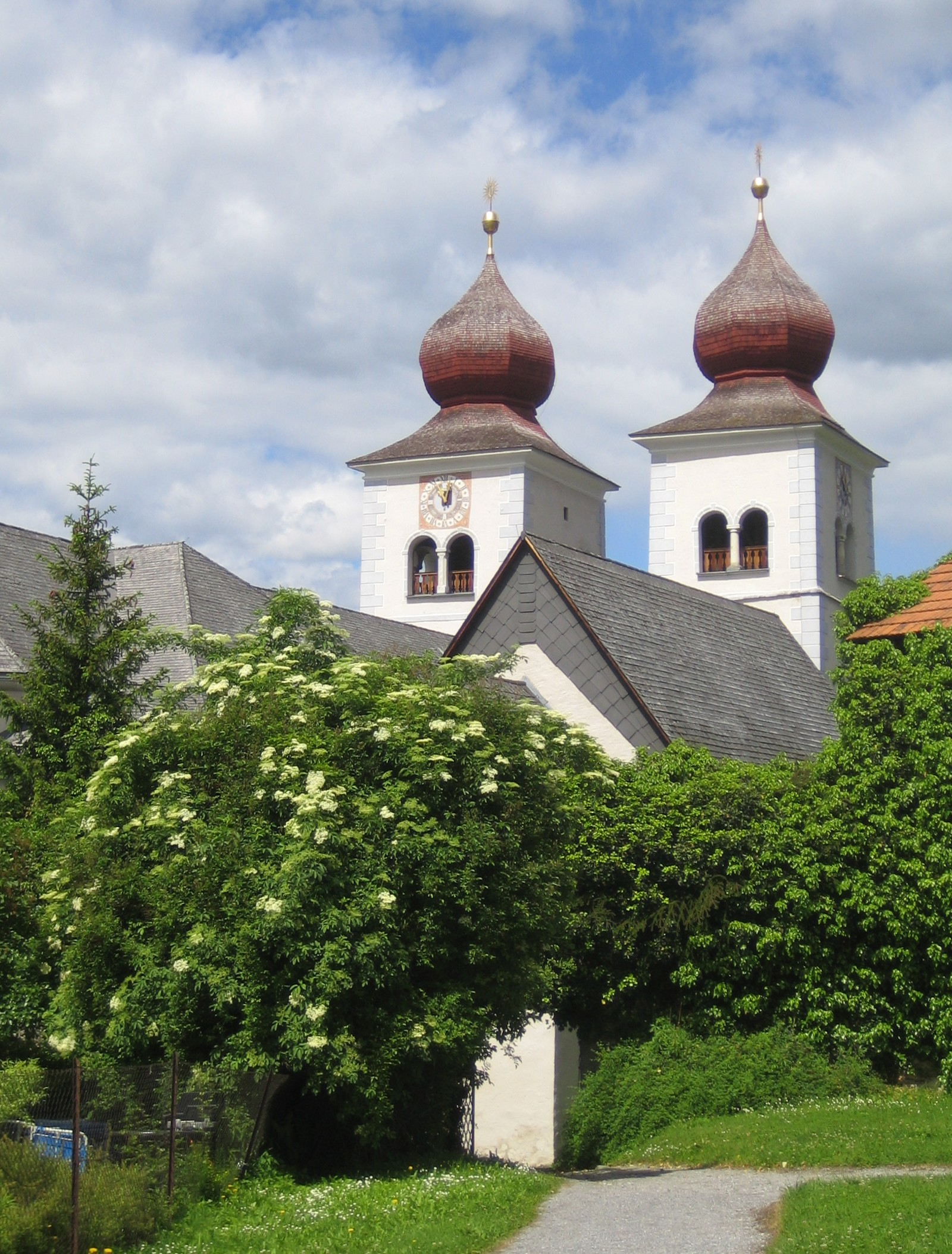 Millstatt Abbey Millstatt district Spittal an der Drau in Carinthia / Austria / European Union. Monestry north-eastern view.